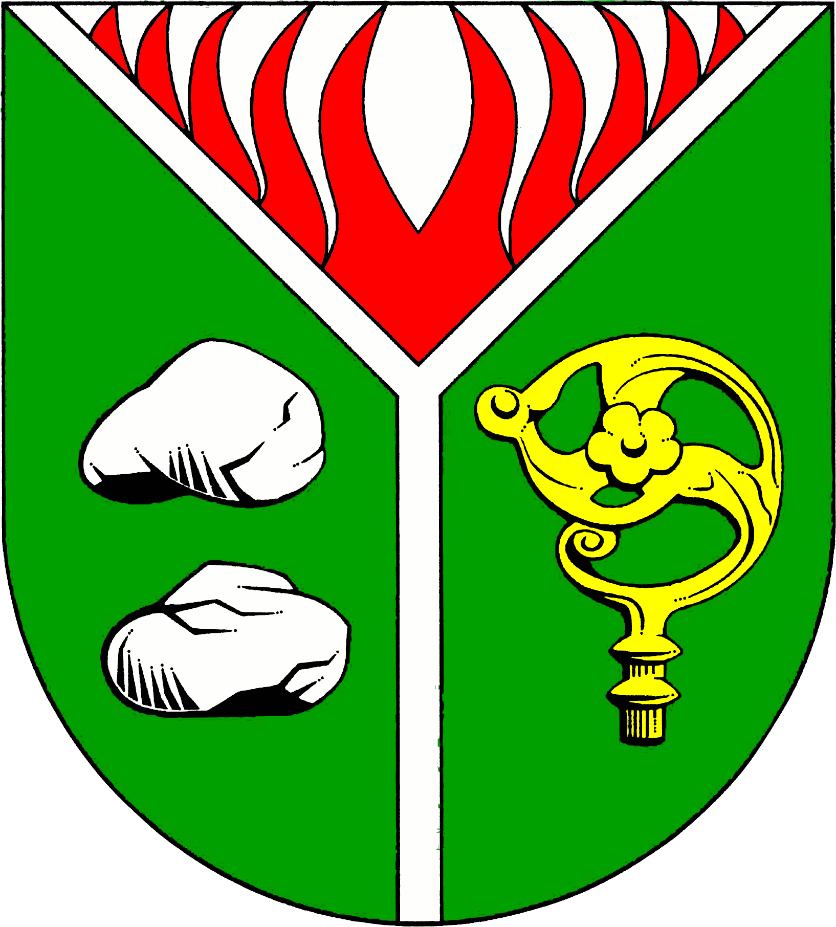 Coat of arms of the municipality Glasau in Schleswig-Holstein, Germany.